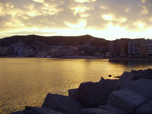 Croton on the southern coast of Italy.